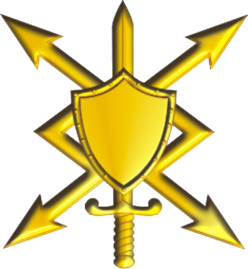 Electronic warfare troops branch insignia of Ukraine.